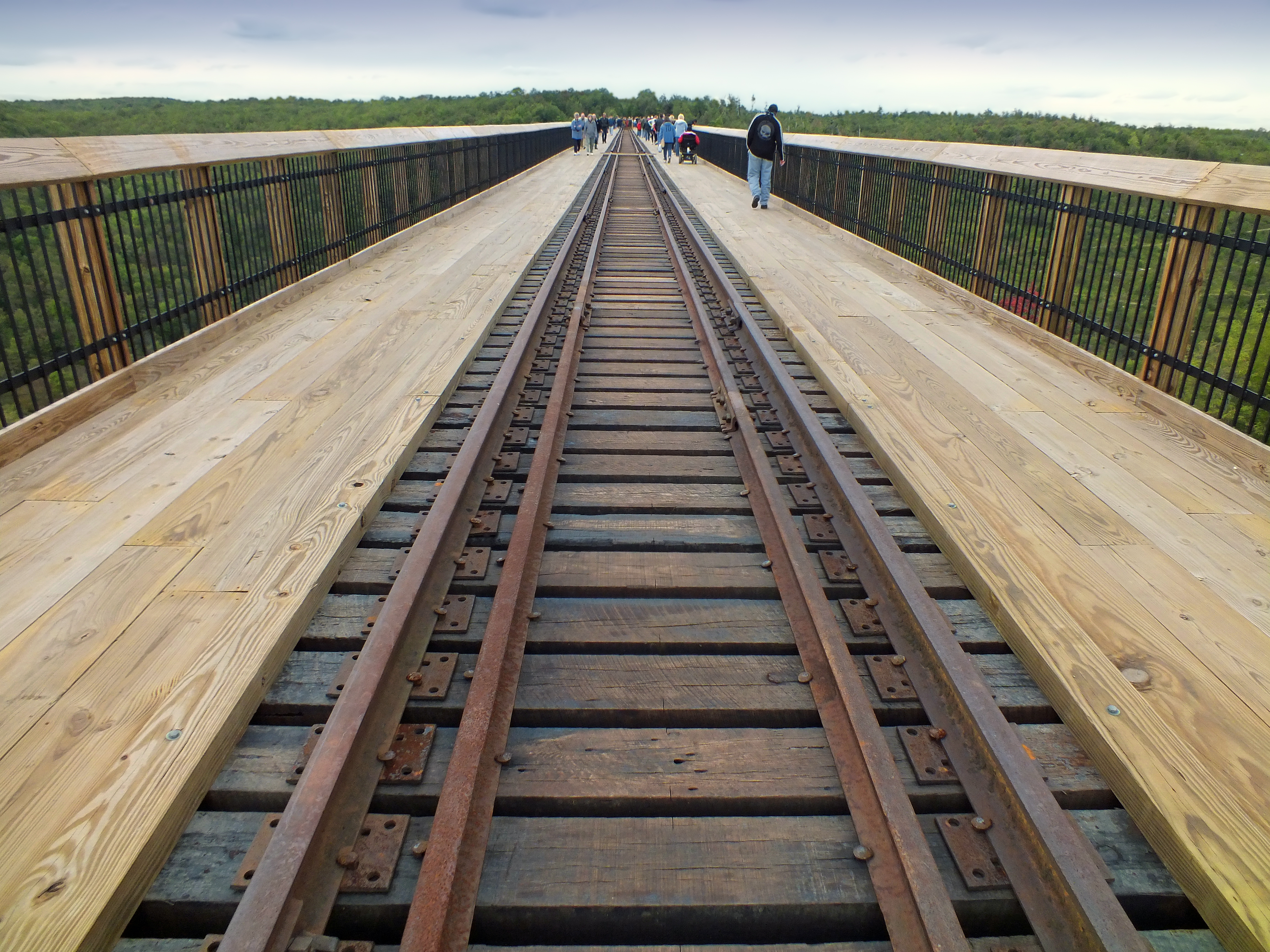 Standing portion of the Kinzua Viaduct, a railroad bridge spanning the gorge of Kinzua Creek, McKean County. A tornado collapsed a large section of the bridge in 2003. The standing portion of the bridge has recently been converted to a pedestrian walkway, with a glass-bottomed observation deck. Photo of the bridge during my last visit, in 2007, here.